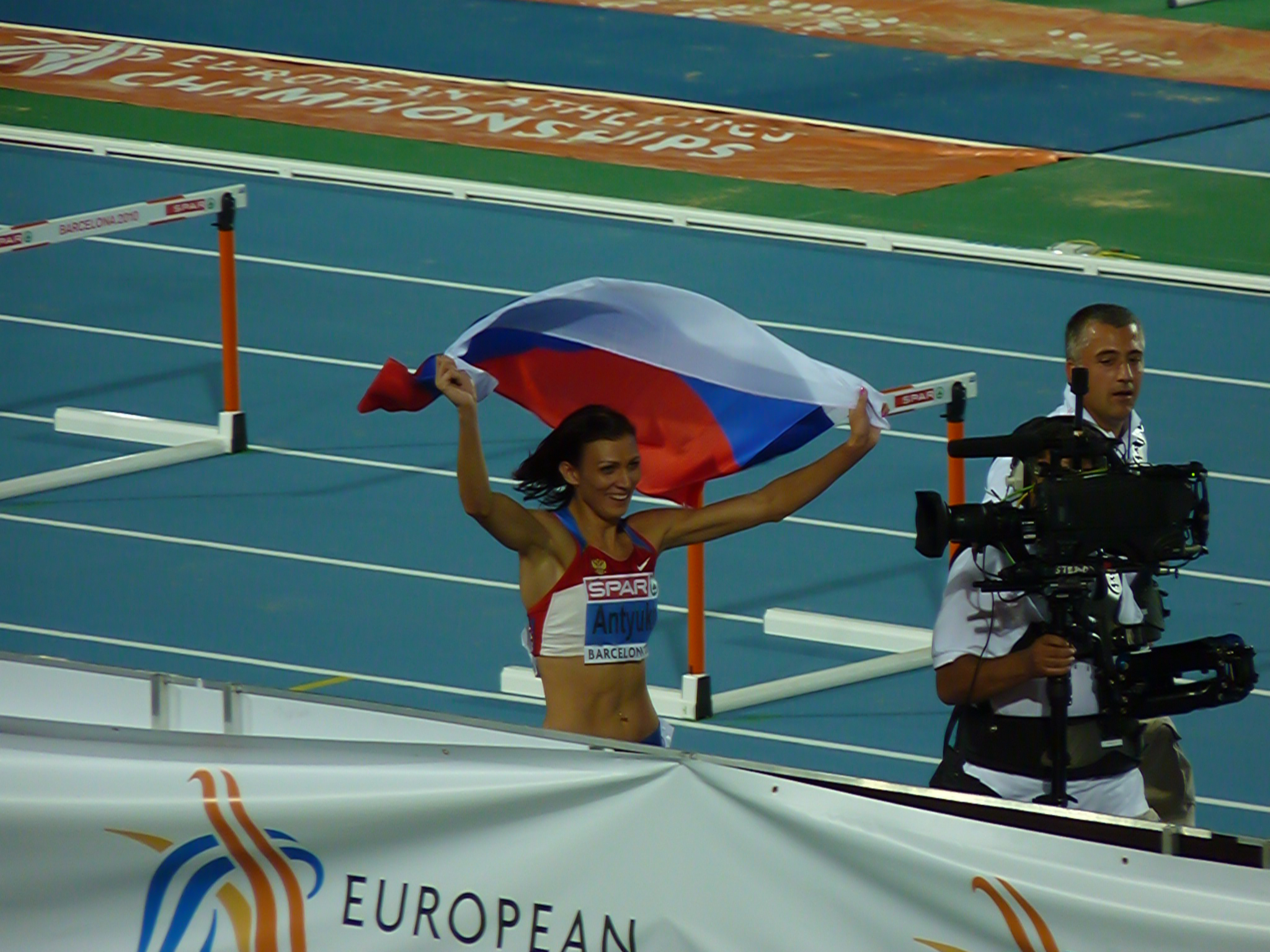 Natalya Antyukh, 2010 European Championships in Athletics